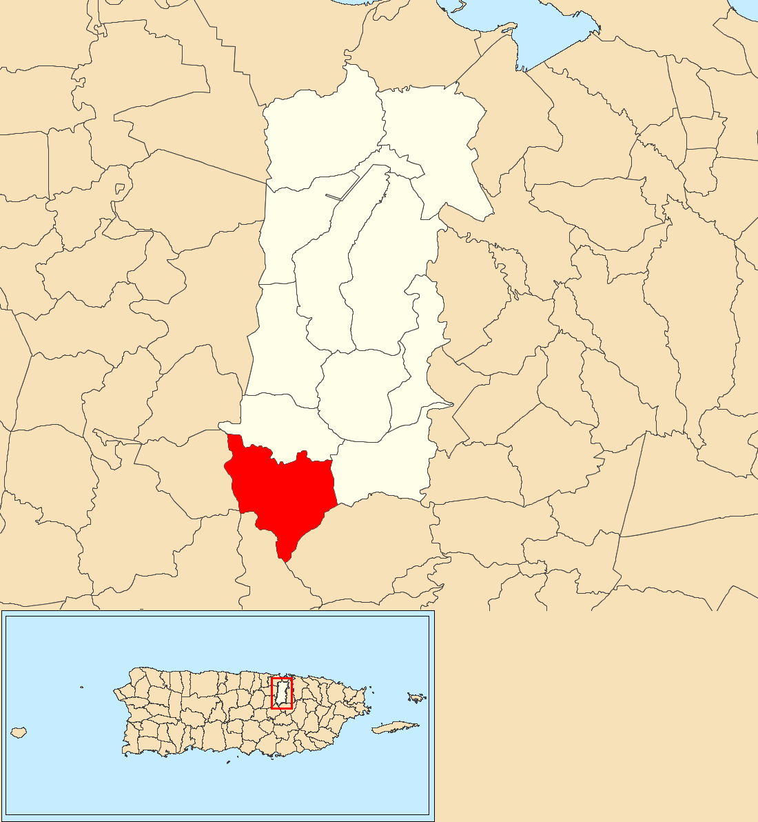 Nuevo, Bayamón, Puerto Rico locator map